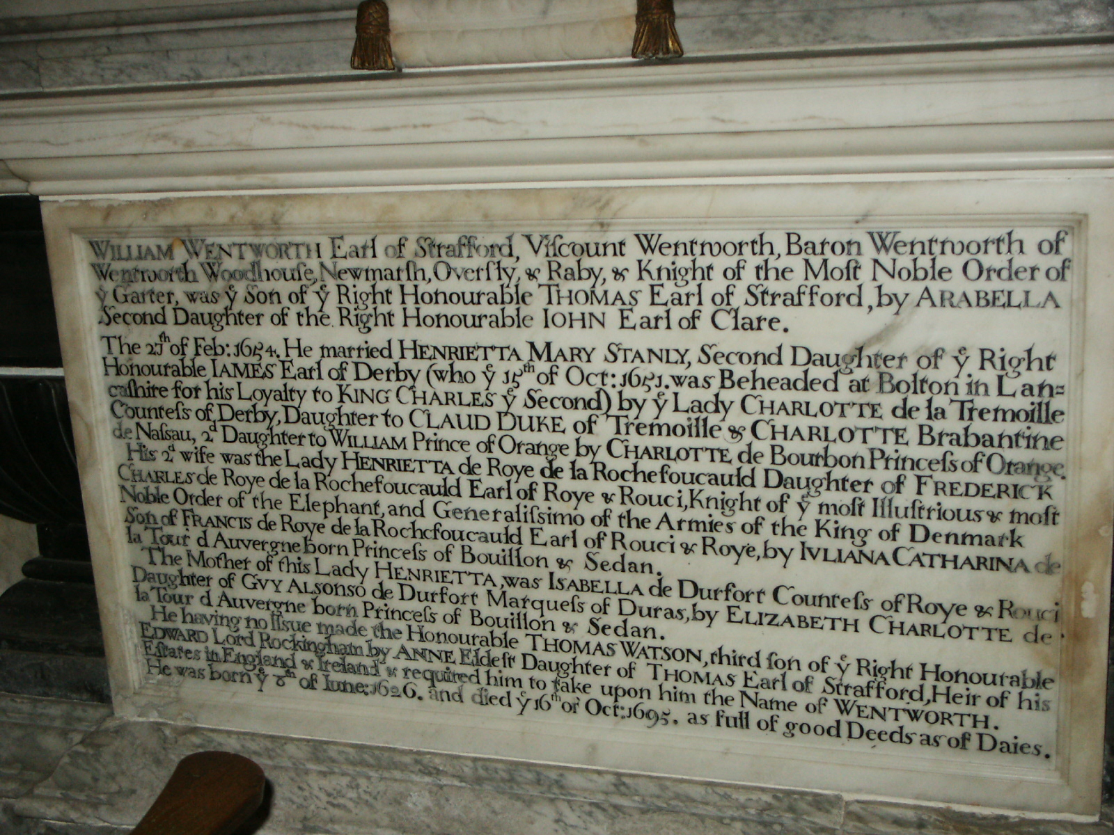 York Minster Interior Tomb William Wentworth, Earl of Strafford 1695 - 17th c - Memorial tribute testimonial under statue of The Honorable Earle of Strafford of Wentworth Woodhouse, - full description link